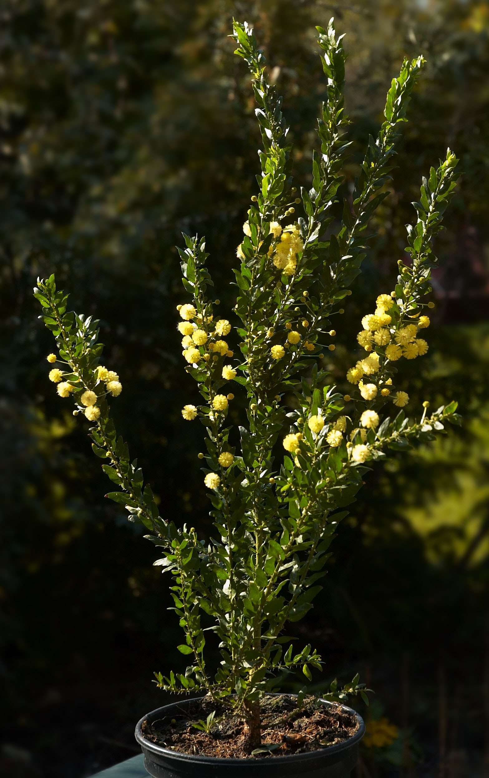 Kangaroo Thorn